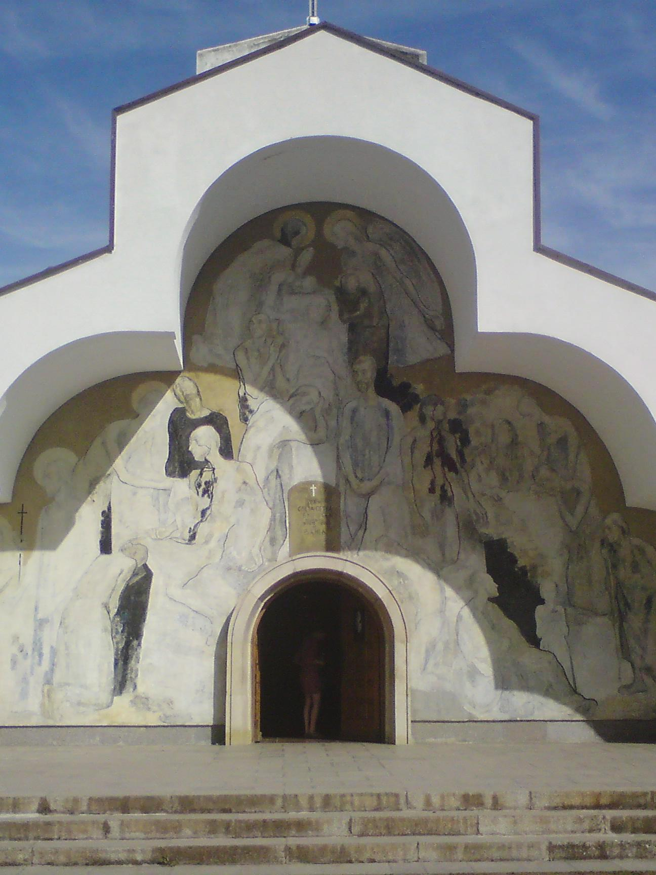 monument